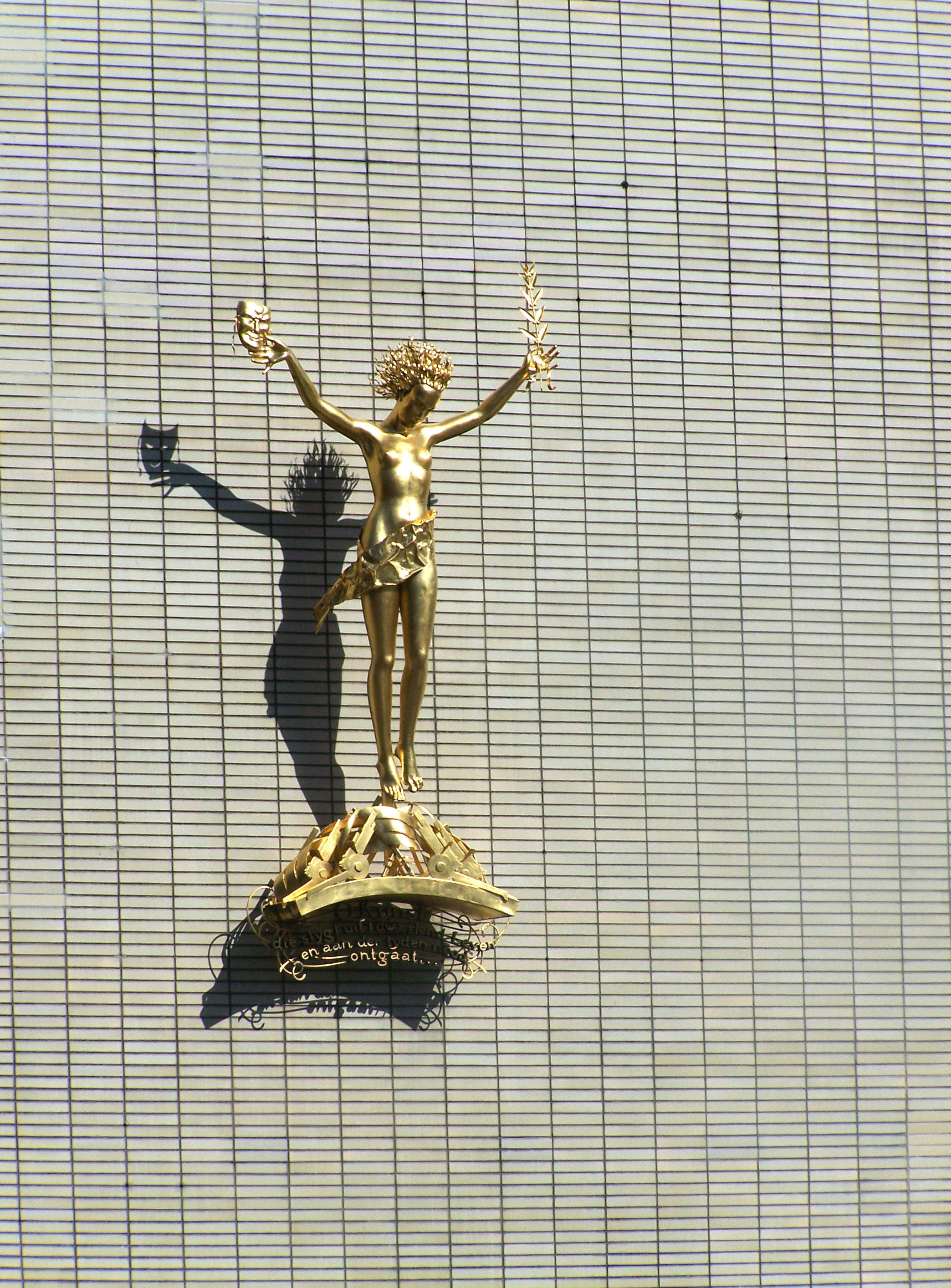 Sculpture Muse (official title: De verhevenheid der kunst boven de nood des tijds) made by Leo Brom in 1940, placed at the facade of the city theatre (stadsschouwburg), Lucas Bolwerk (Utrecht), in 1941.